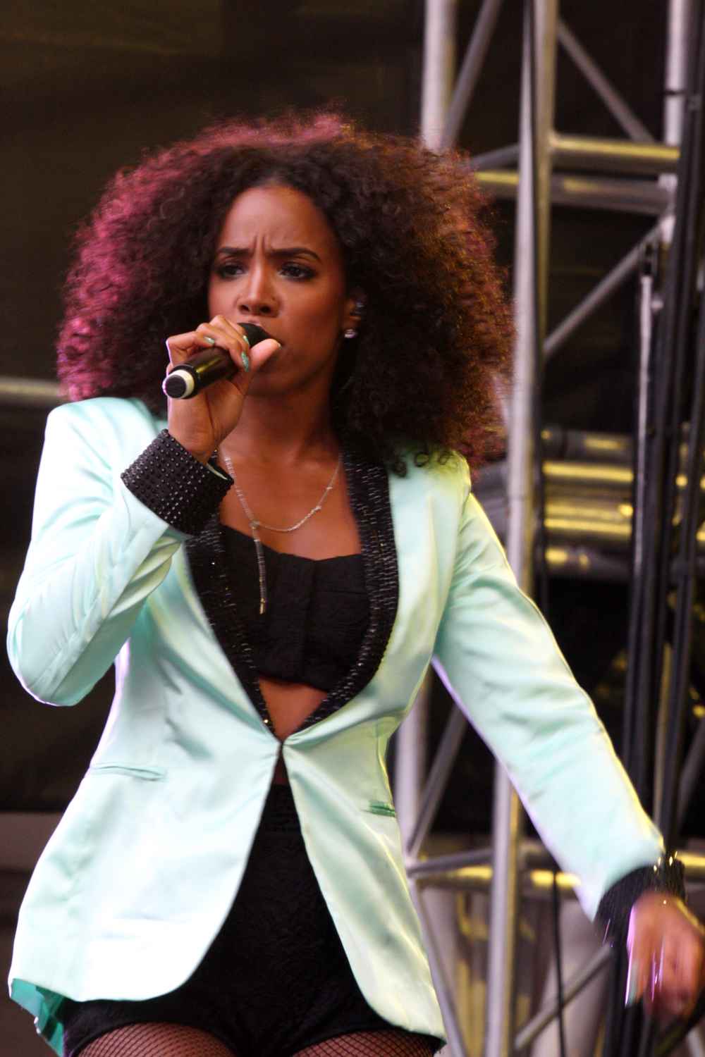 Supafest 2012, Sydney, Australia; Chris Brown, Kelly Rowland, Lupe Fiasco, Naughty By Nature and more